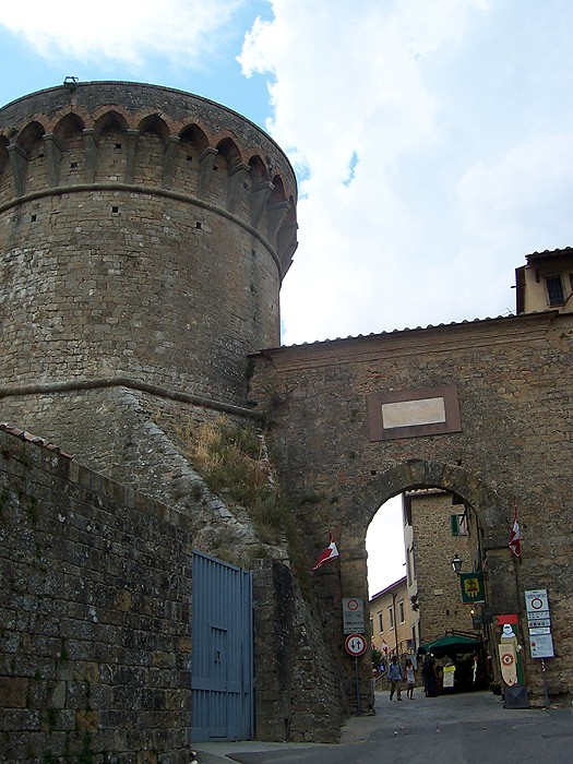 Porta a Selci in Volterra